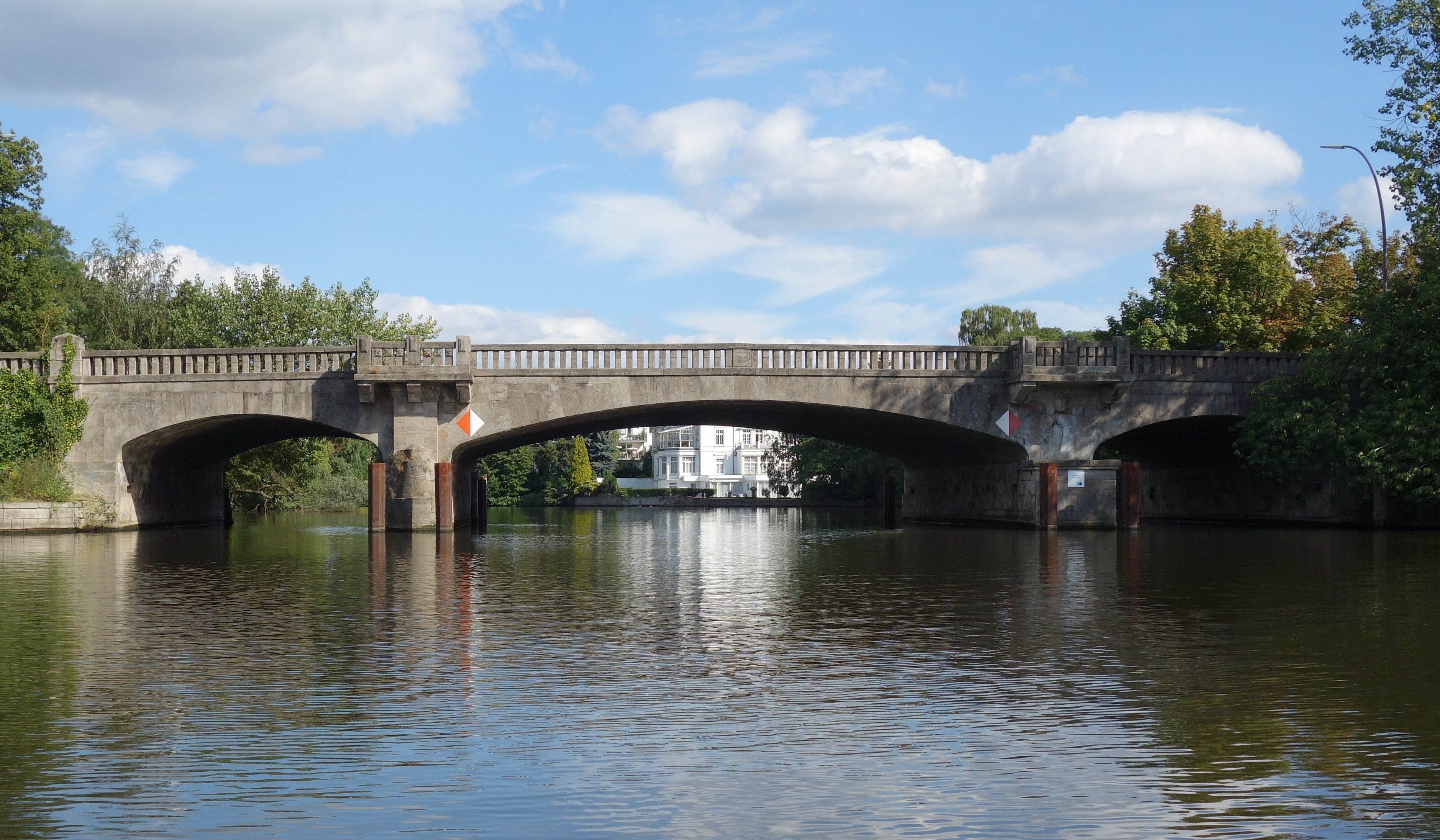 Bridge at the river Alster in Hamburg, Germany